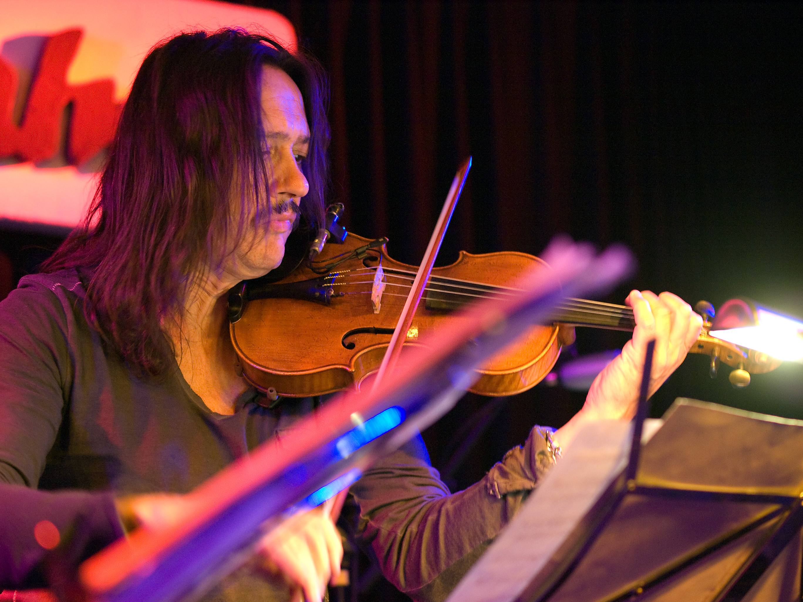 Dominique Pifarély, jazz violinist; Picture taken in Jazz Club Unterfahrt, Munich/Bavaria